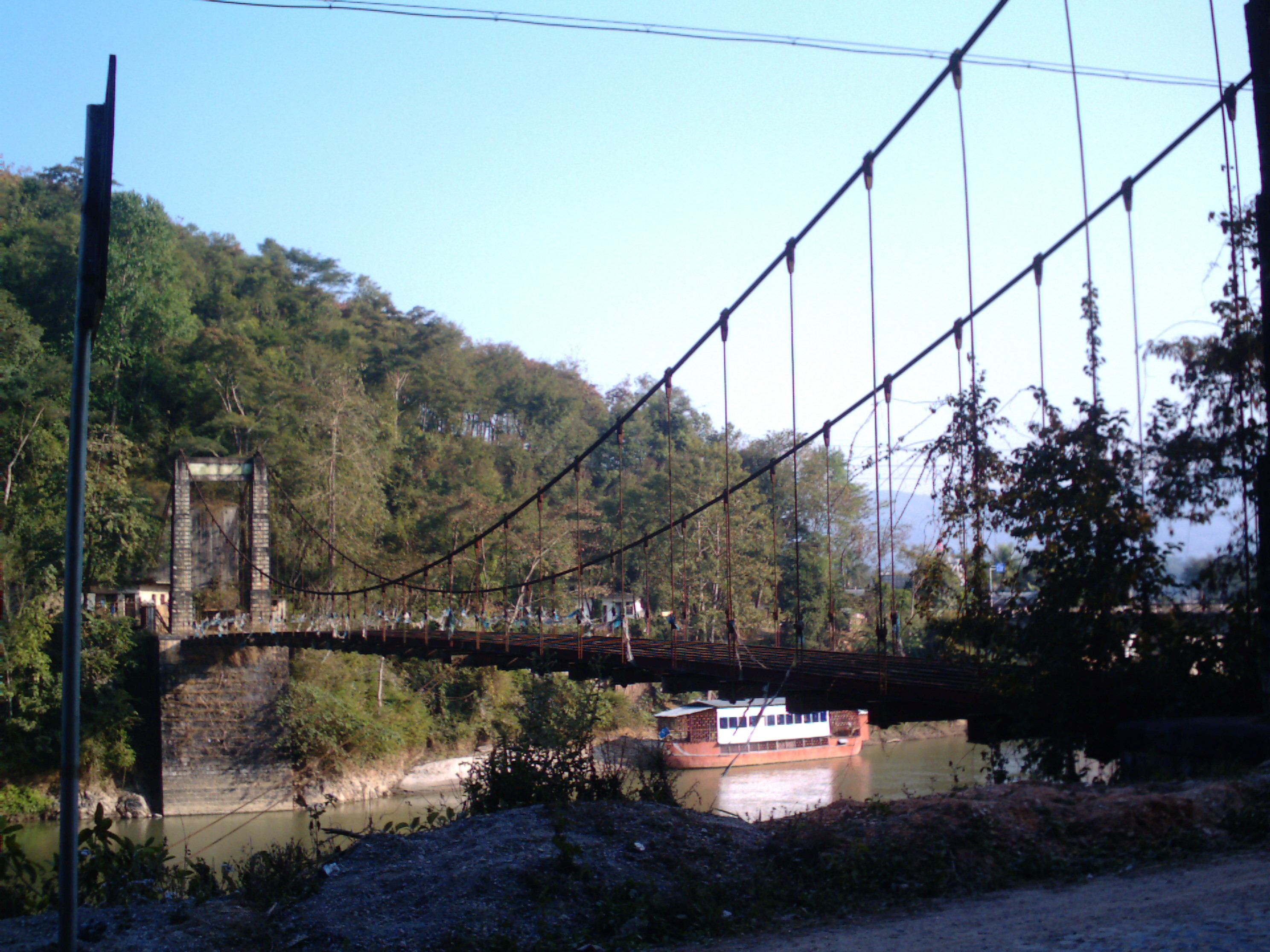 Bridge over Shweli River